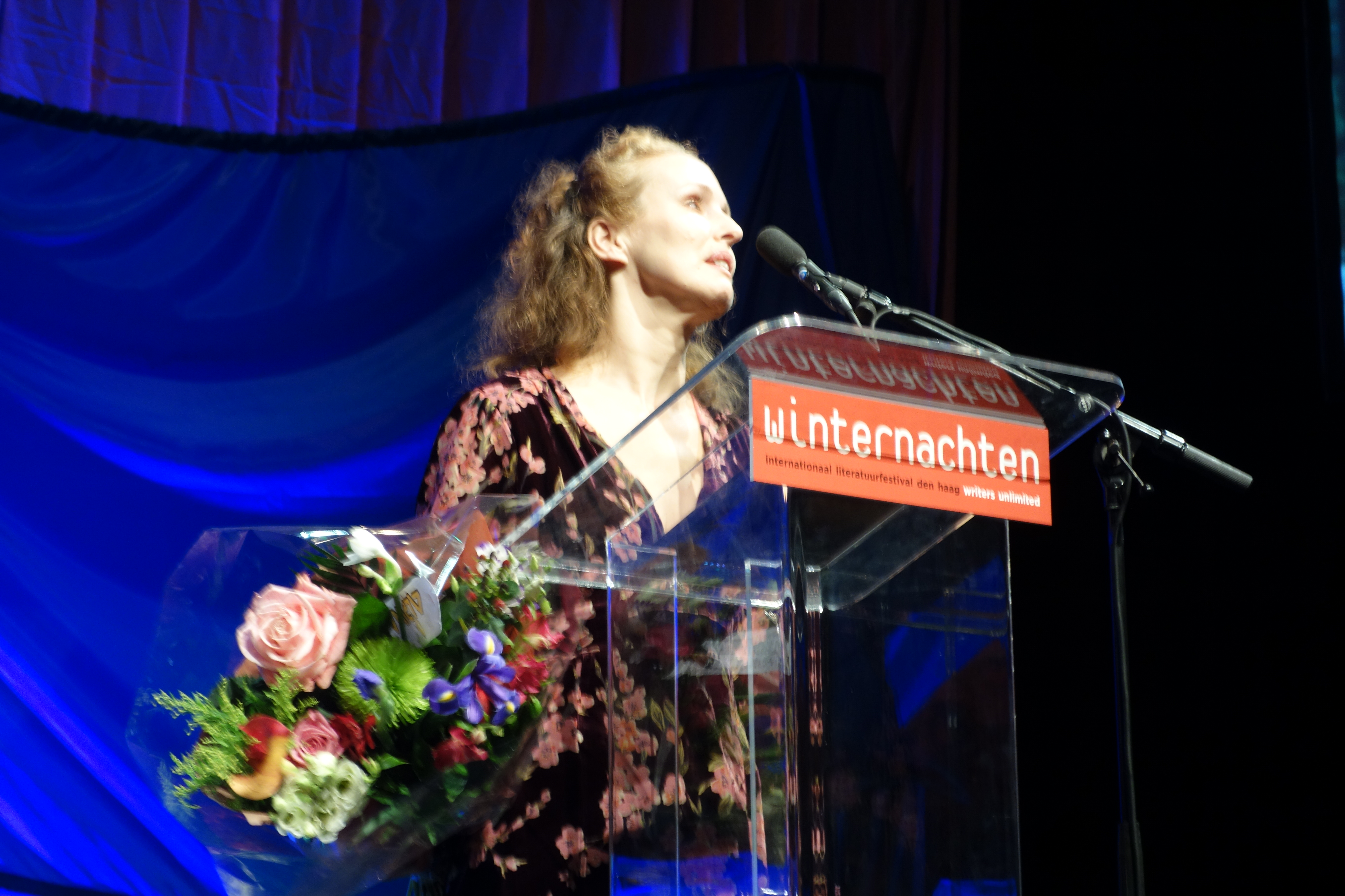 Dutch writer Marente de Moor at Winternachten (Writers Unlimited) 2020, The Hague